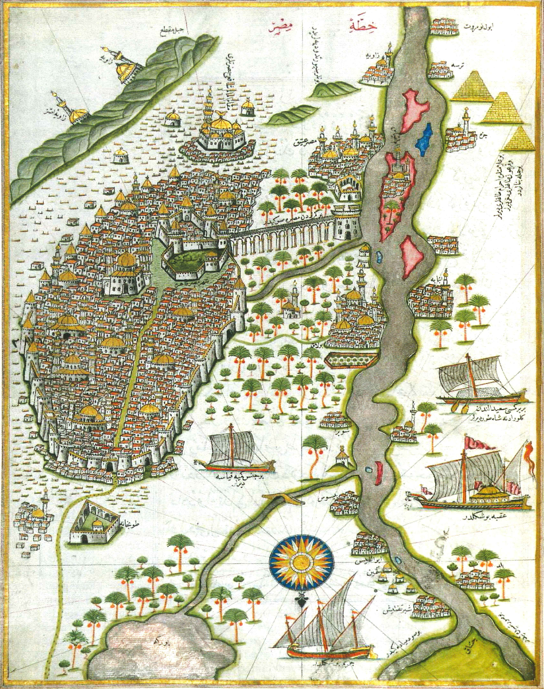 A map of Cairo drawn by Ottoman navigator Piri Reis. It is a part of the Kitab-ı Bahriye that Piri Reis presented to Ottoman Sultan Suleiman the Magnificent around 1525 AD.